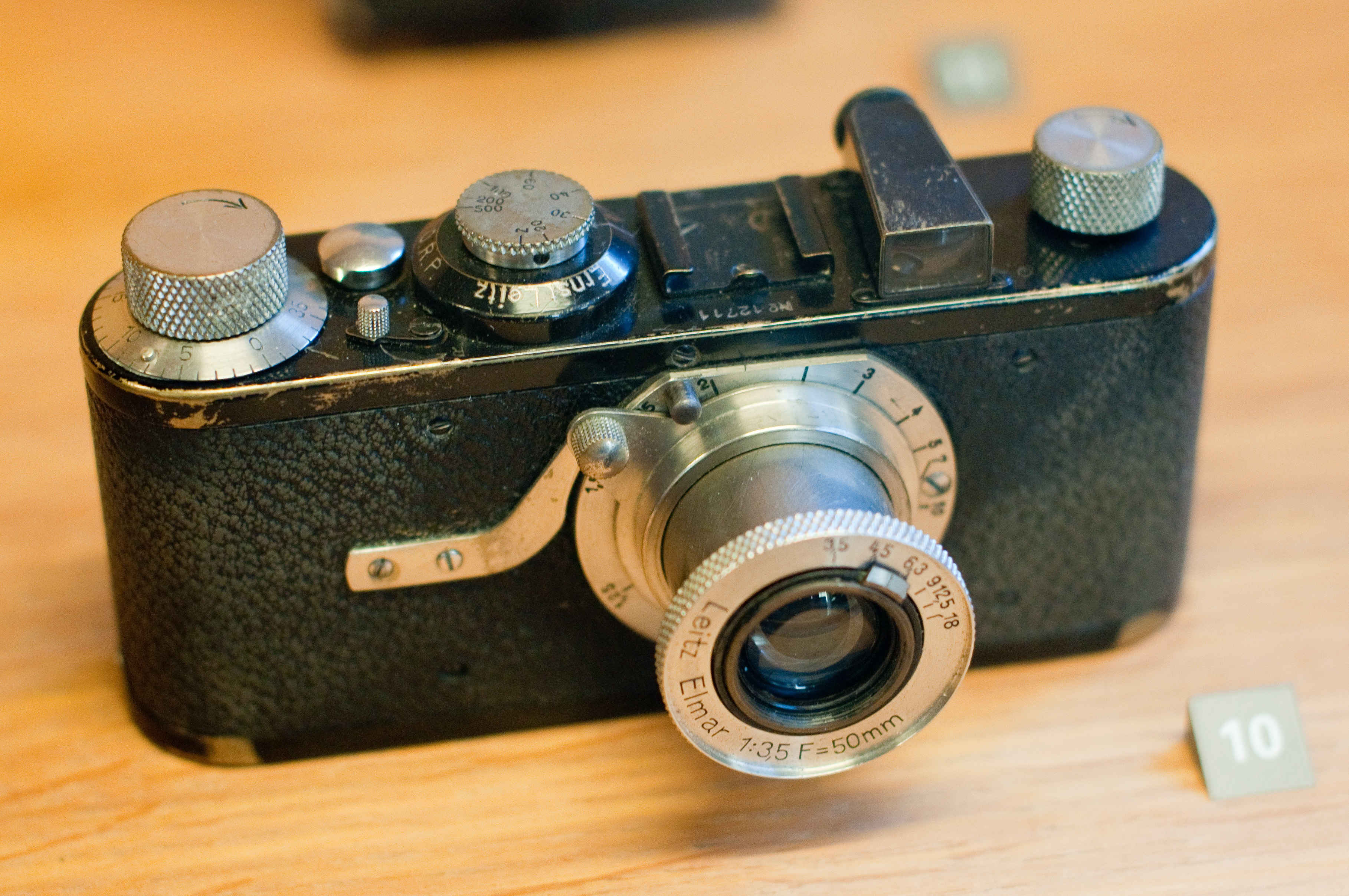 "Leica I (A)" camera